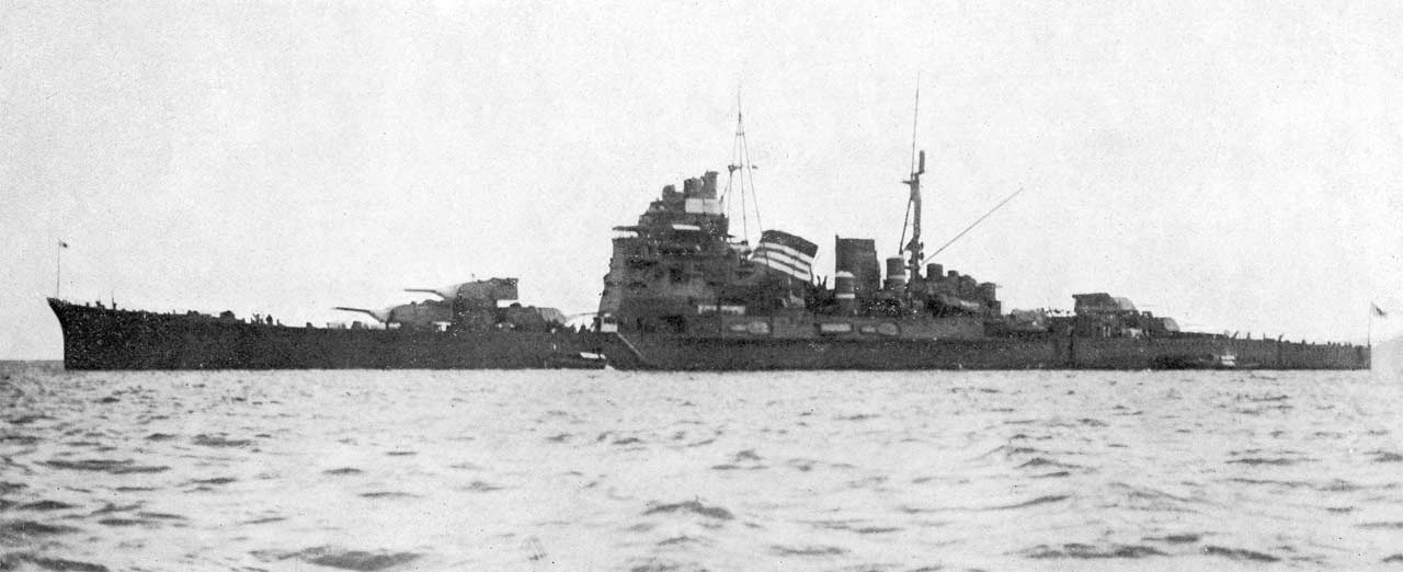 IJN Heavy Cruiser Takao